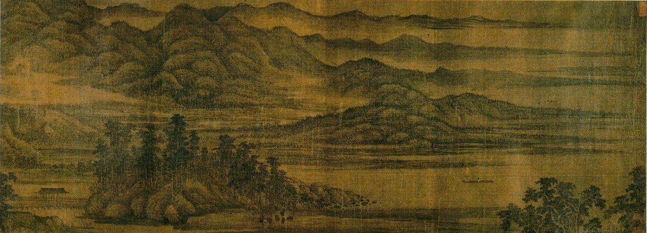 Dong Yuan. "Summer Hills", detail, ca. 950, Shanghai Museum